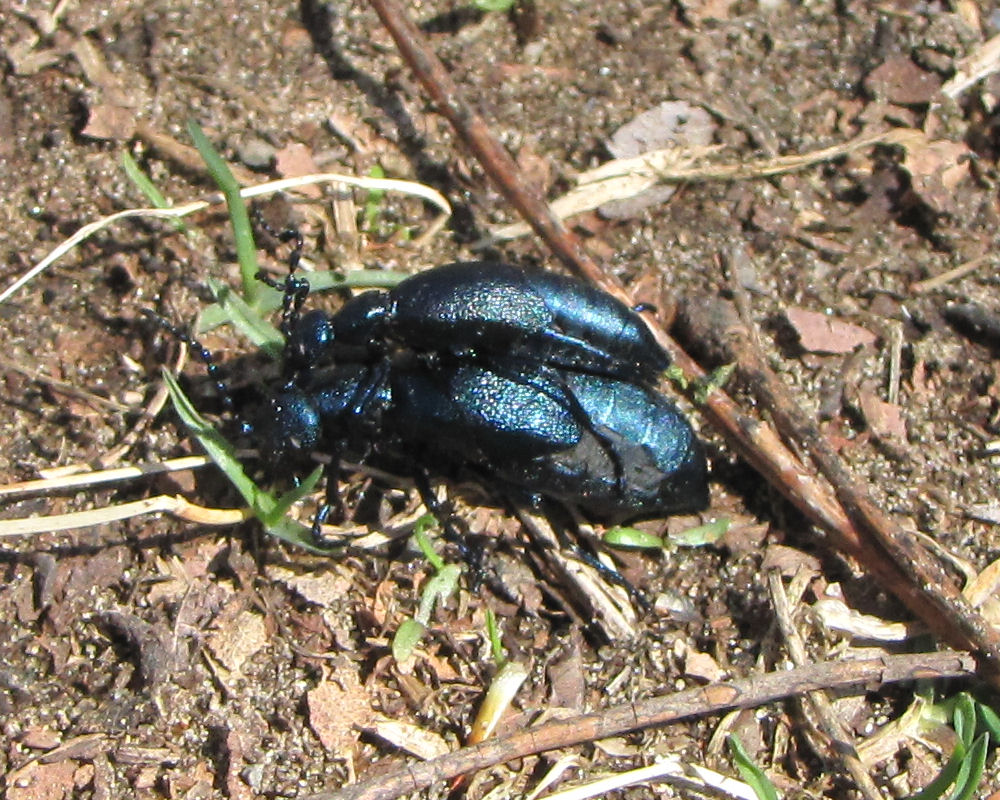 Short-winged Blister Beetles (Meloe angusticollis), mating, Mer Bleue Conservation Area, Ottawa, Ontario, Canada